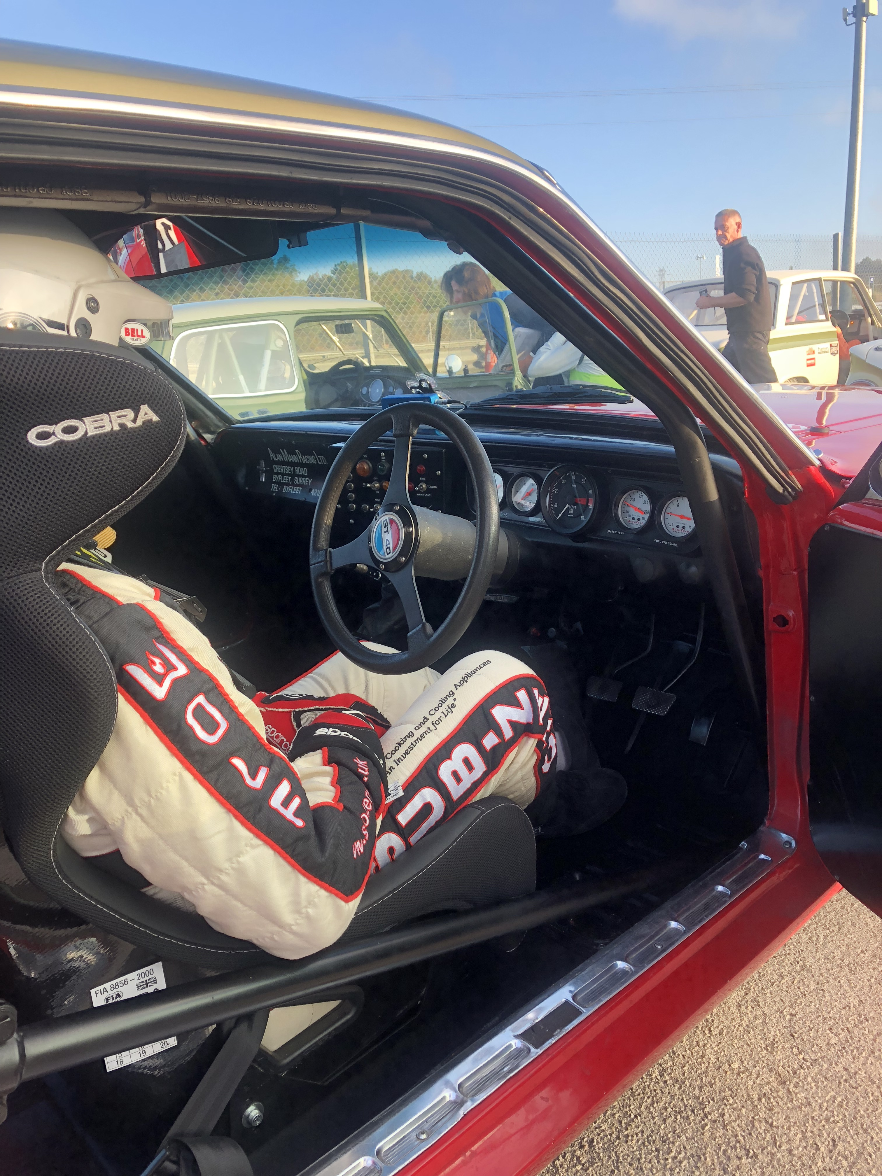 Craig Davies in the staging area in the Alan Mann Mustand at Dijon-Prenois, he was the eventual race winner.